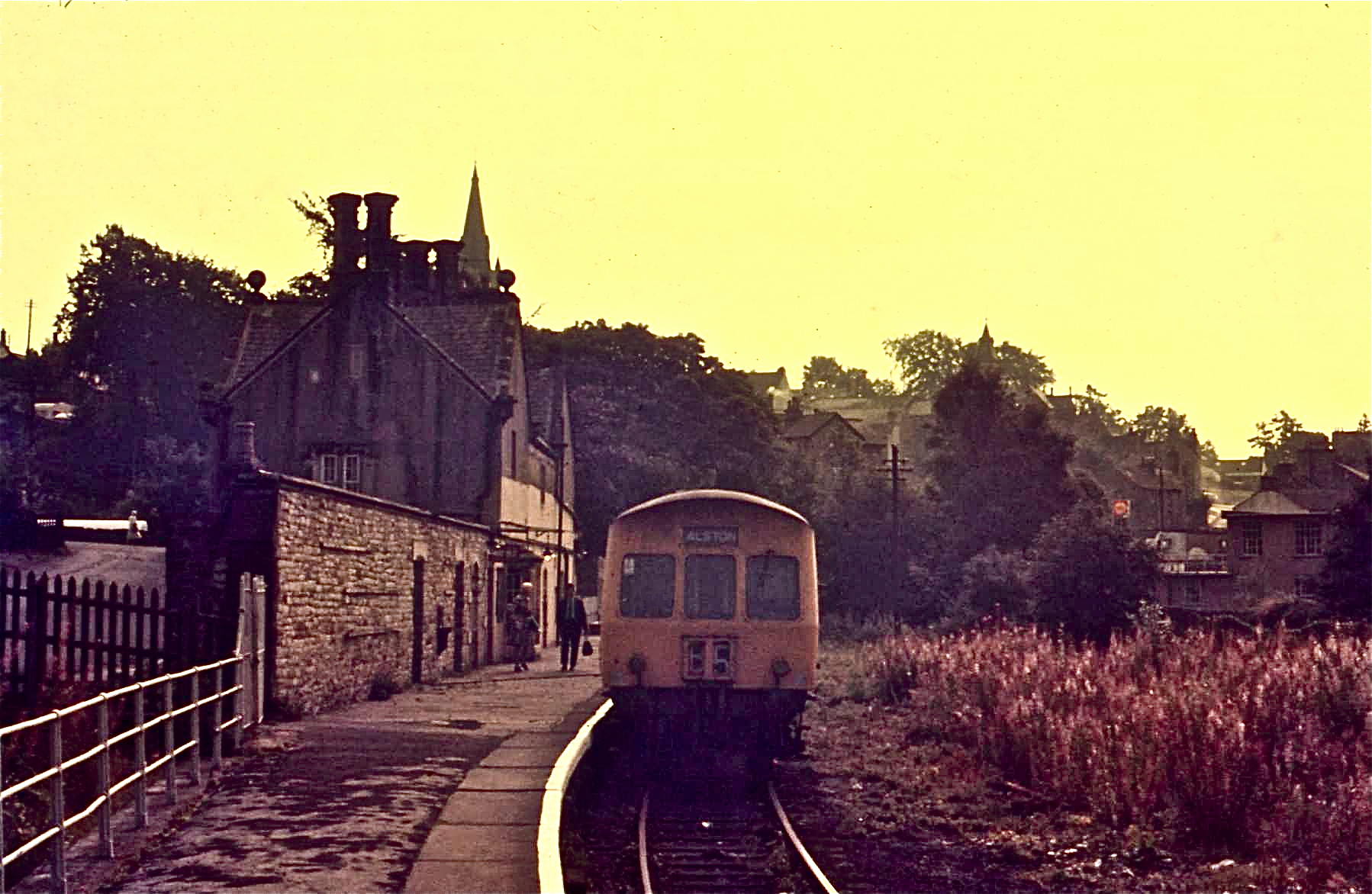 September 1973